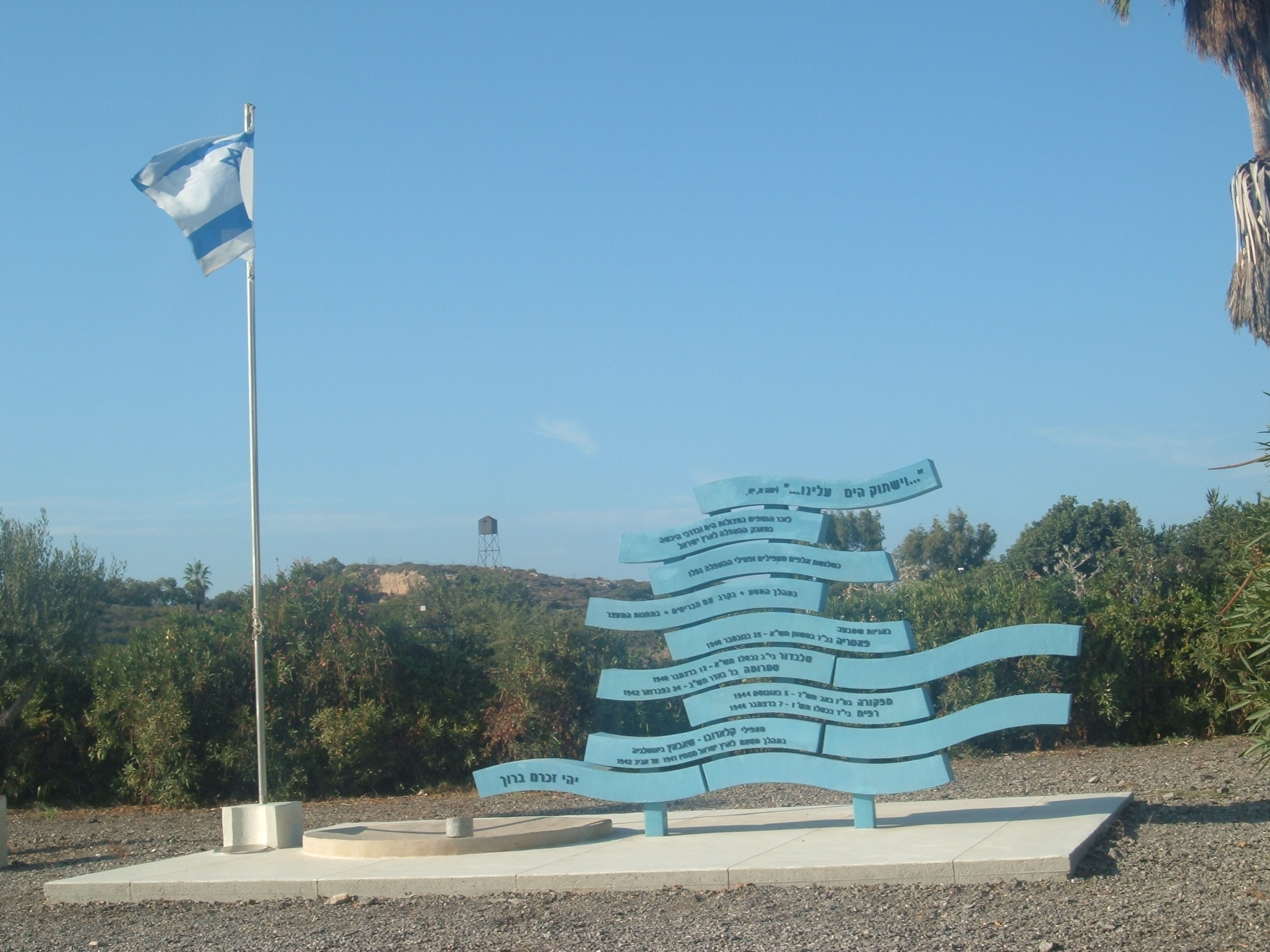 A memorial to illegal immigrants perished at sea, Atlit former detention camp, Israel. created by artist Uri Shaviv.